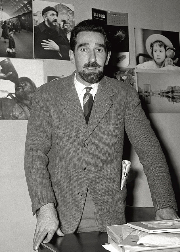 The writer Mario Rigoni Stern poses standing behind the desk of his office inside Mondadori archive. Milan, 1958.